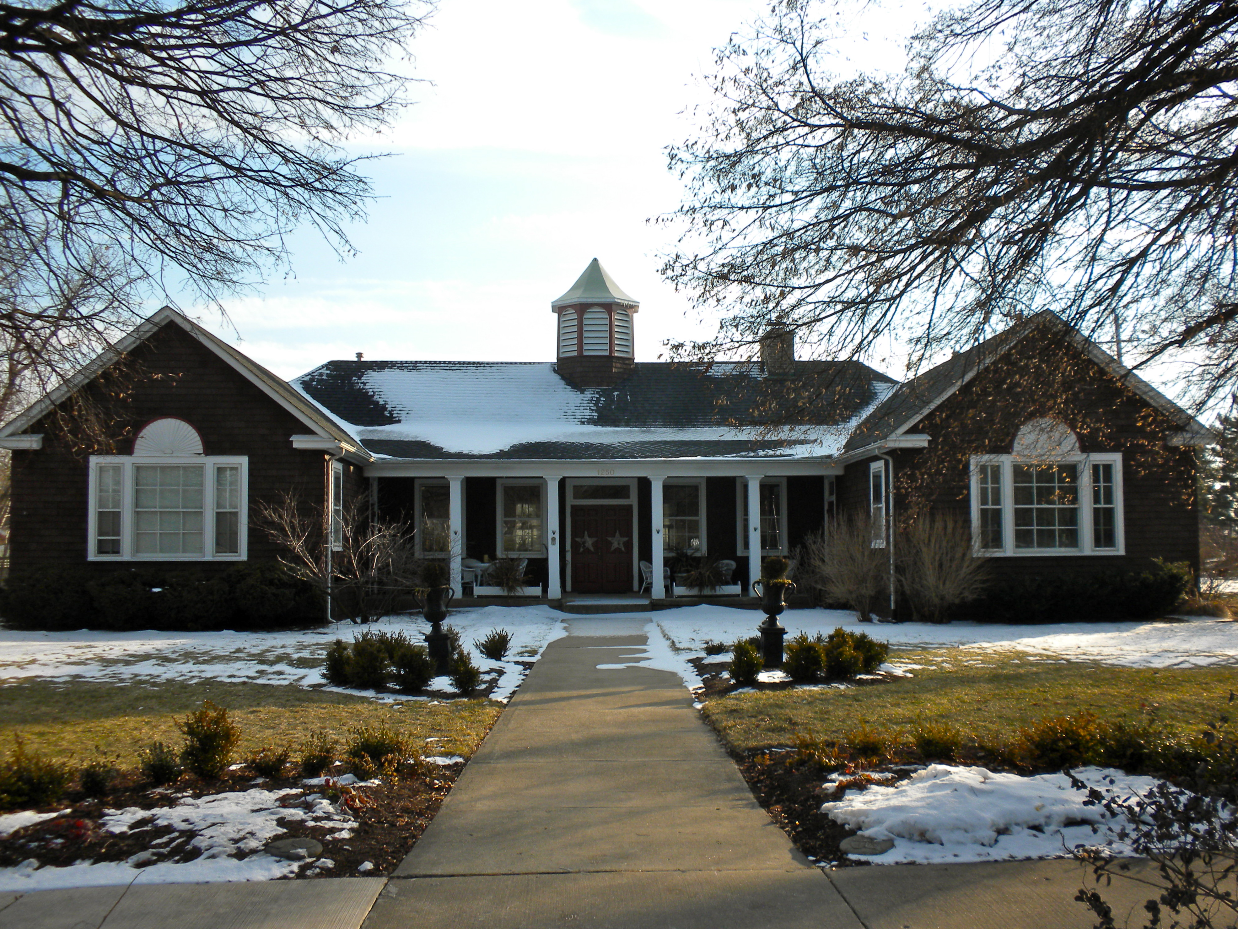 Geneva Country Day School in Geneva, Illinois. On NRHP since August 21, 1989 1250 South St.